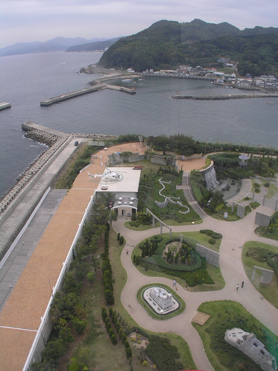 onokoro-irand